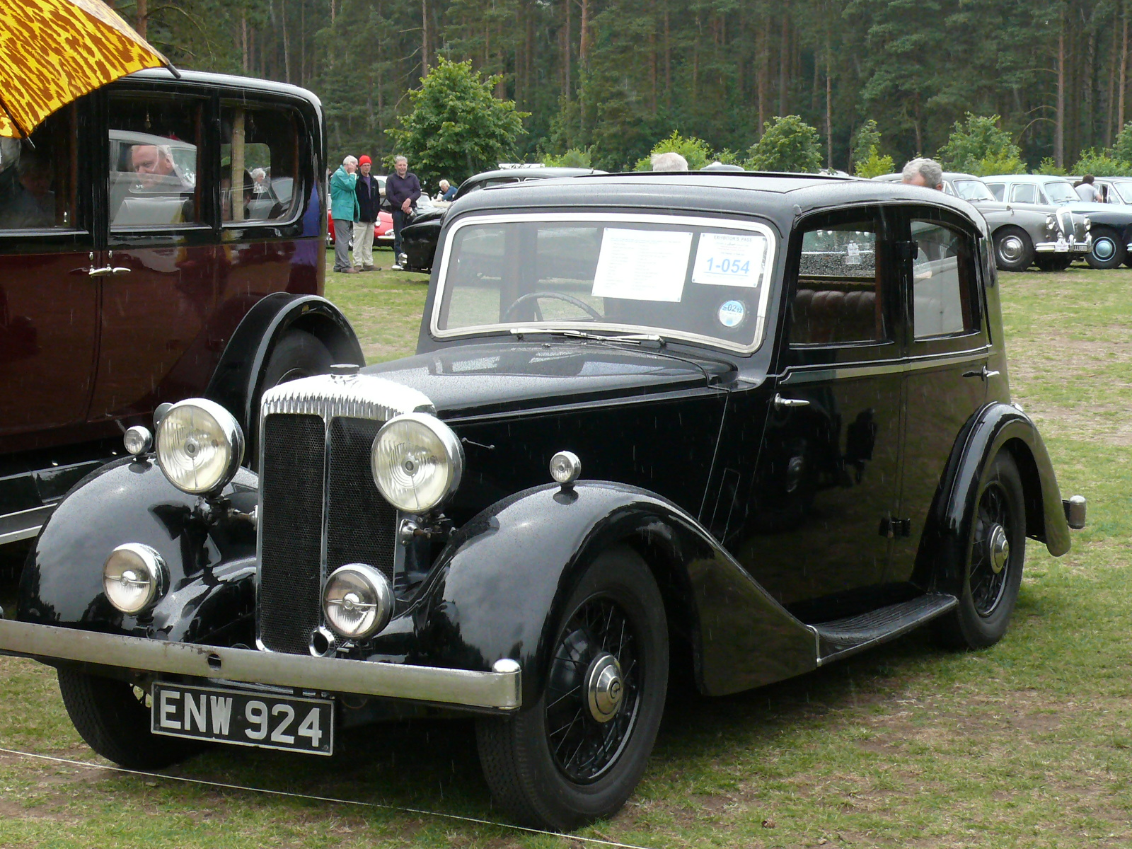 Daimler Fifteen sports saloon 4-light 1936 [ENW 924] Daimler & Lanchester Owners Club, International Rally, Queen's Birthday weekend, Sandringham, Norfolk Sunday 12 June 2011 (DVLA) 2166cc, reg 1 January 1937 body by Mulliner